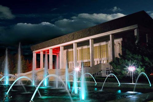 20.04.09 opera si balet